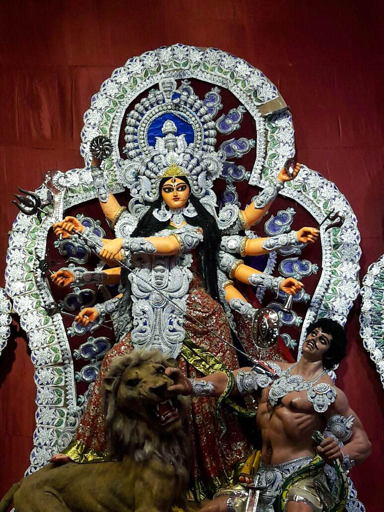 Image of Durga Mata as she kills Mahishasur - the buffalo demon who tormented the Earth